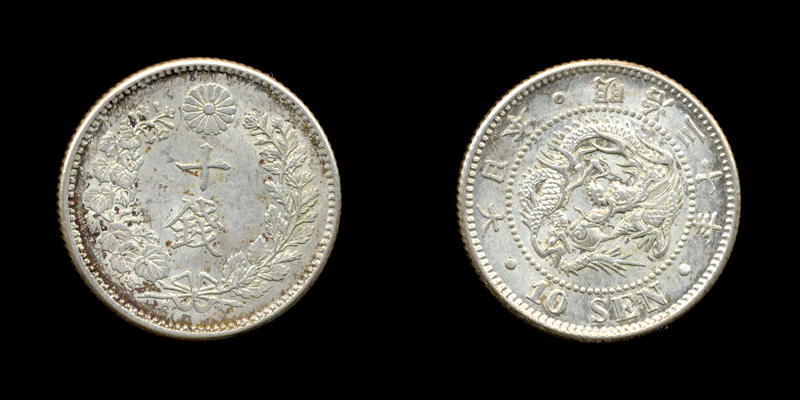 10sen-M30